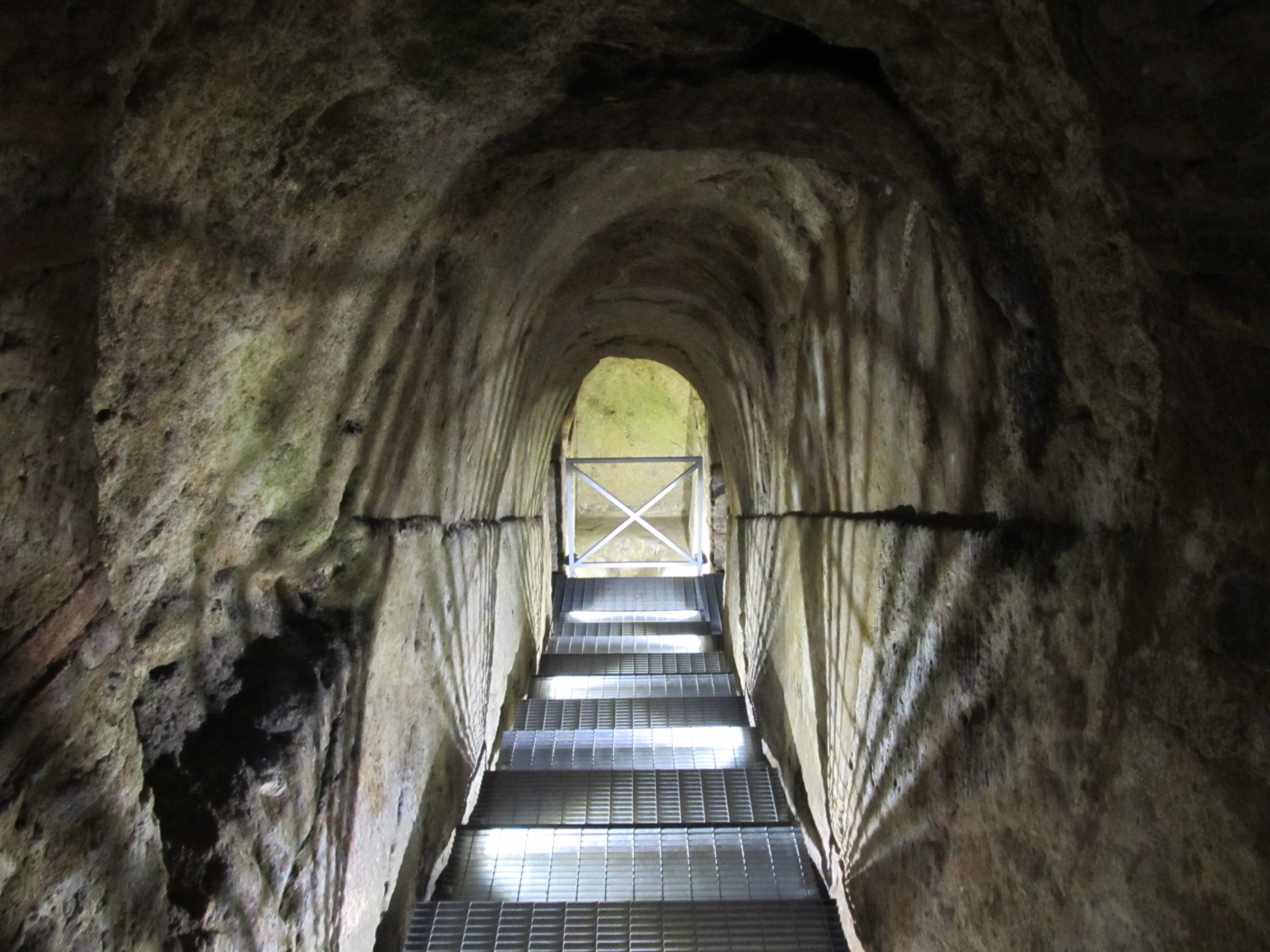 elba island